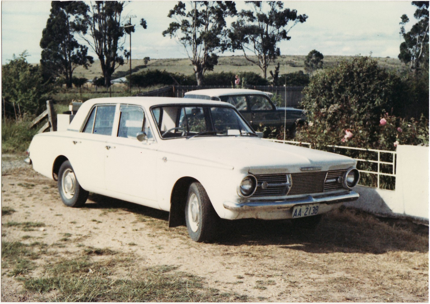 Chrysler Valiant AP6 1964-66 (Australia)